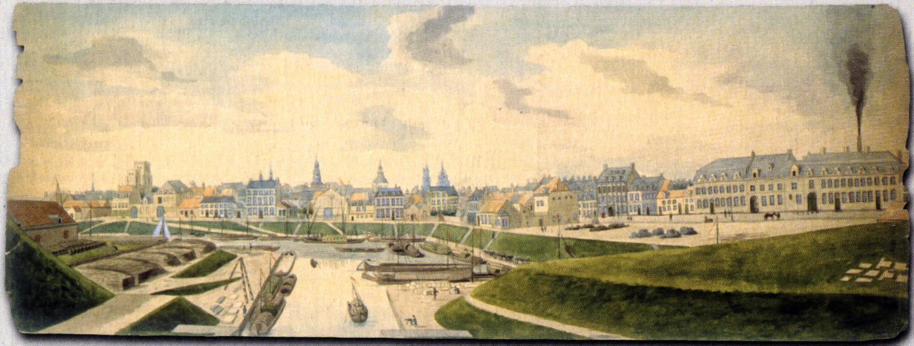 Maastricht, the Netherlands. View from the north of Maastricht, in particular of the early industrial surroundings of Bassin and Zuid-Willemsvaart. To the right some factory buildings (all demolished) of Petrus Regout's potteries and other factories. Drawing by Philippus van Gulpen, 1848.